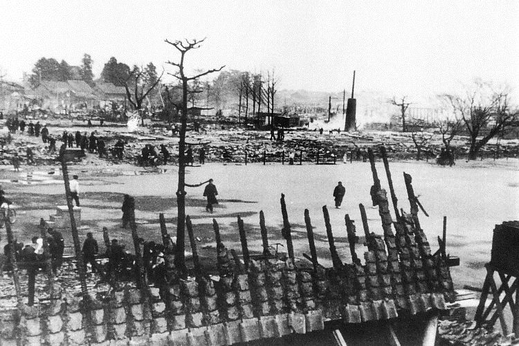 1951 Matsusaka Fire